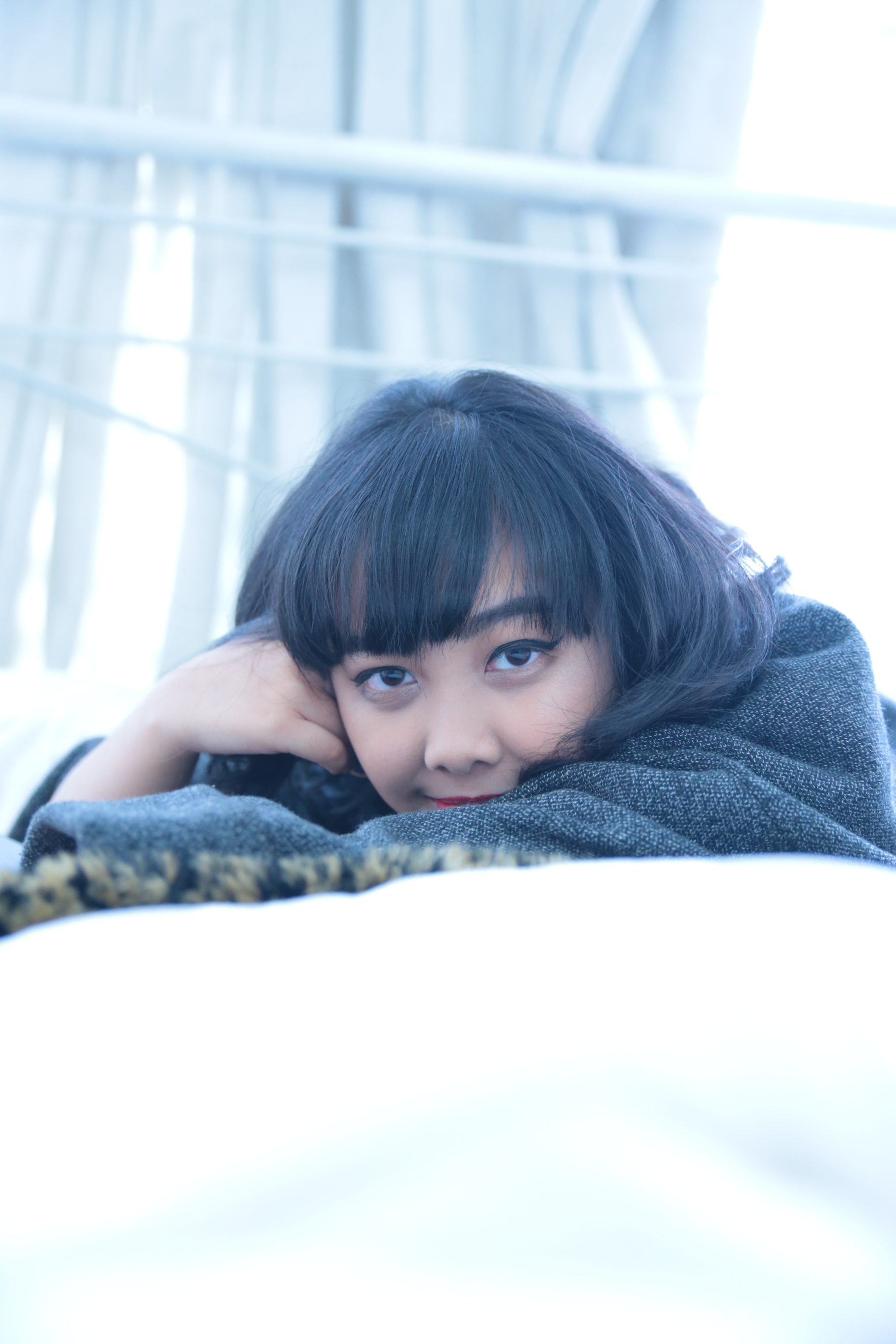 Rain Chudori, 2018